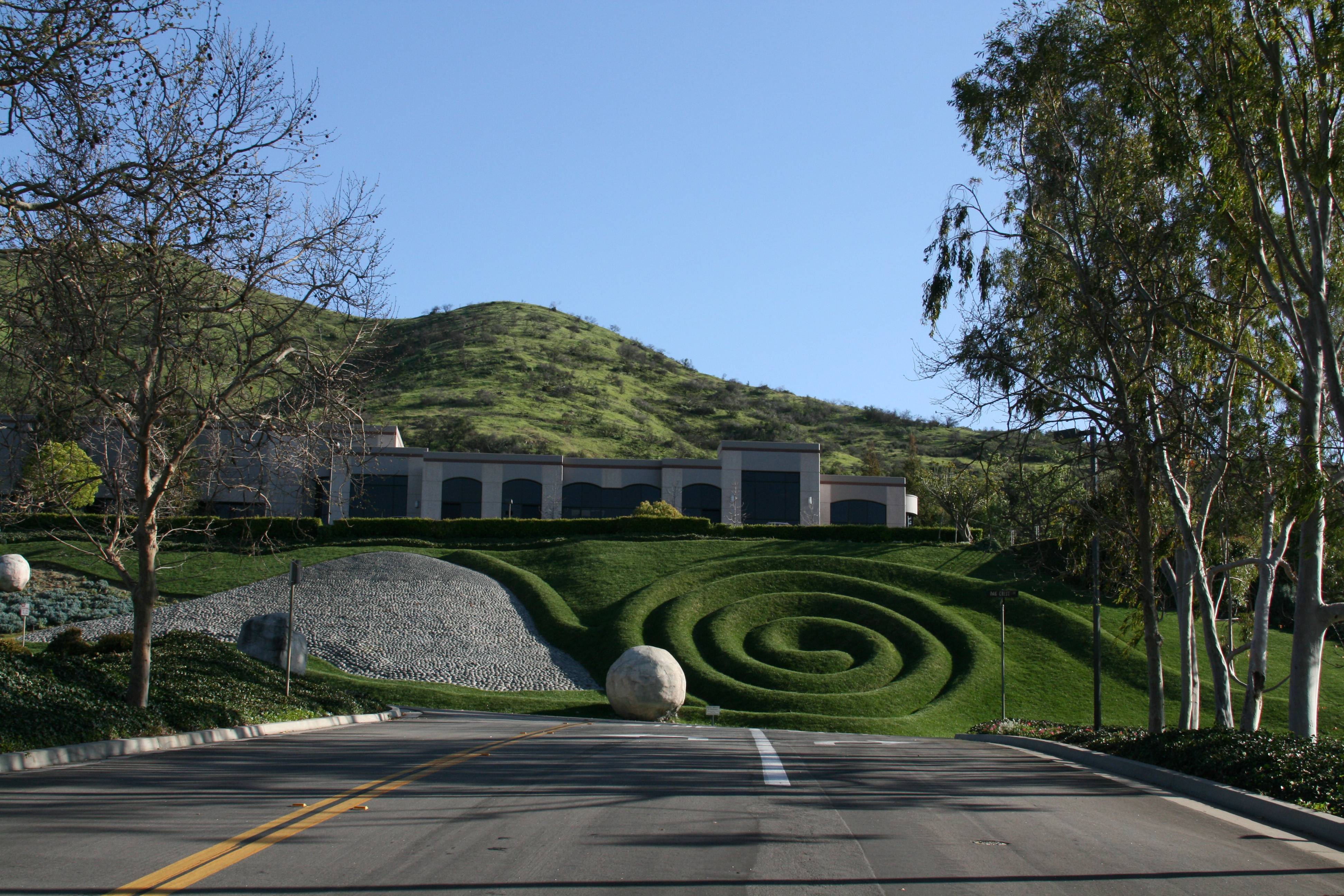 Office building landscaping in Westlake Village, CA